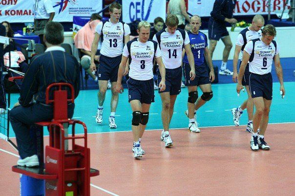 Finland volleyball national team in European Championchips 2007